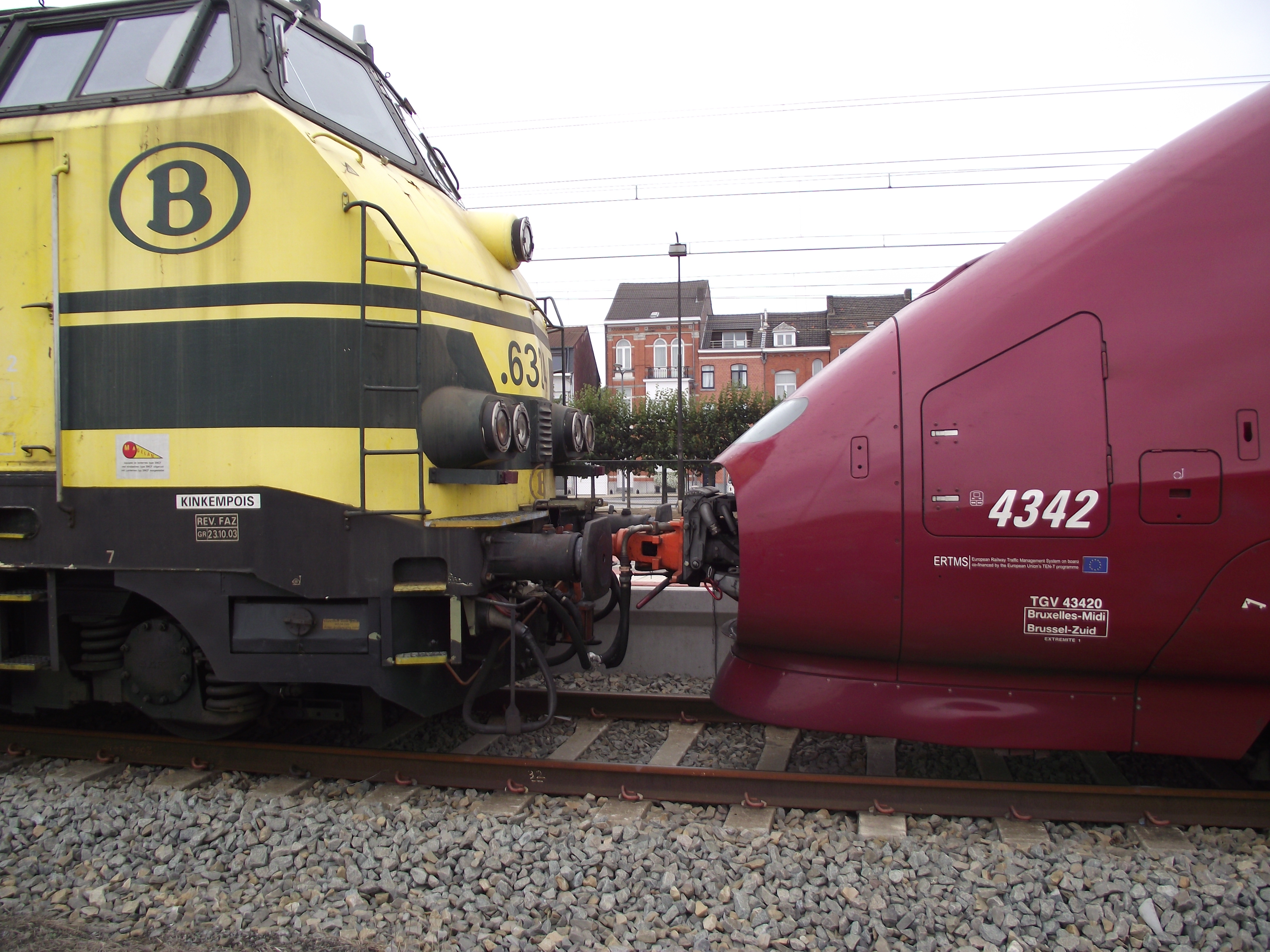 French Thalys 4342 unit being pulled by the 6313 6324 TL2 special diesel locs in Tienen on the classic line. This is a special coupling